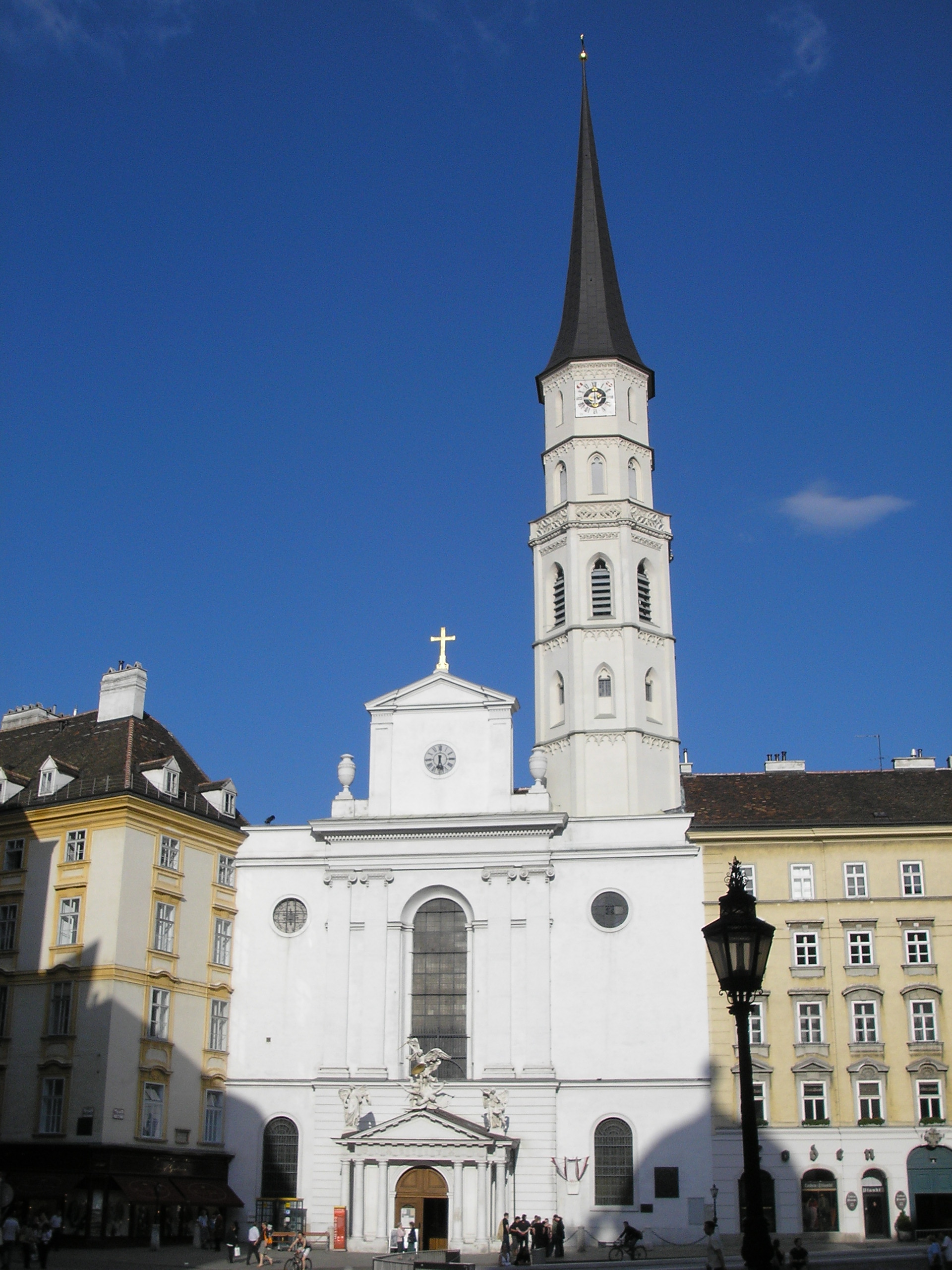 The Michaelerkirche close to the Hofburg imperial palace in Vienna, on Michaelerplatz.